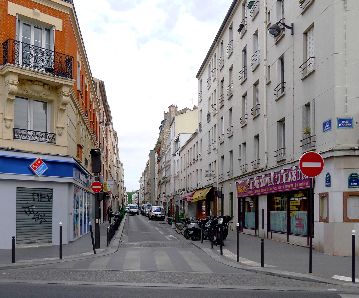 Reunion street - Paris